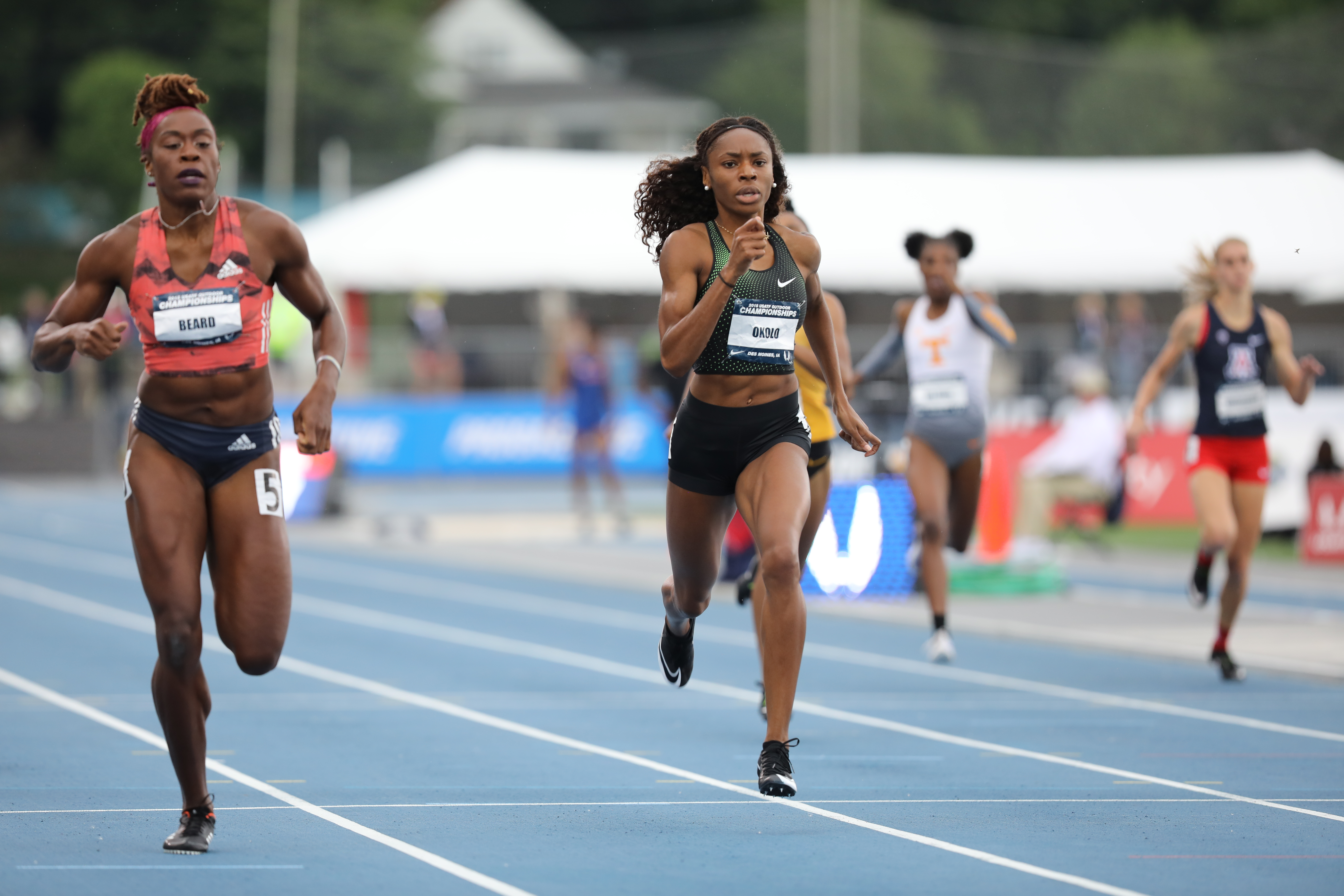 2018 USA Outdoor Track and Field Championships